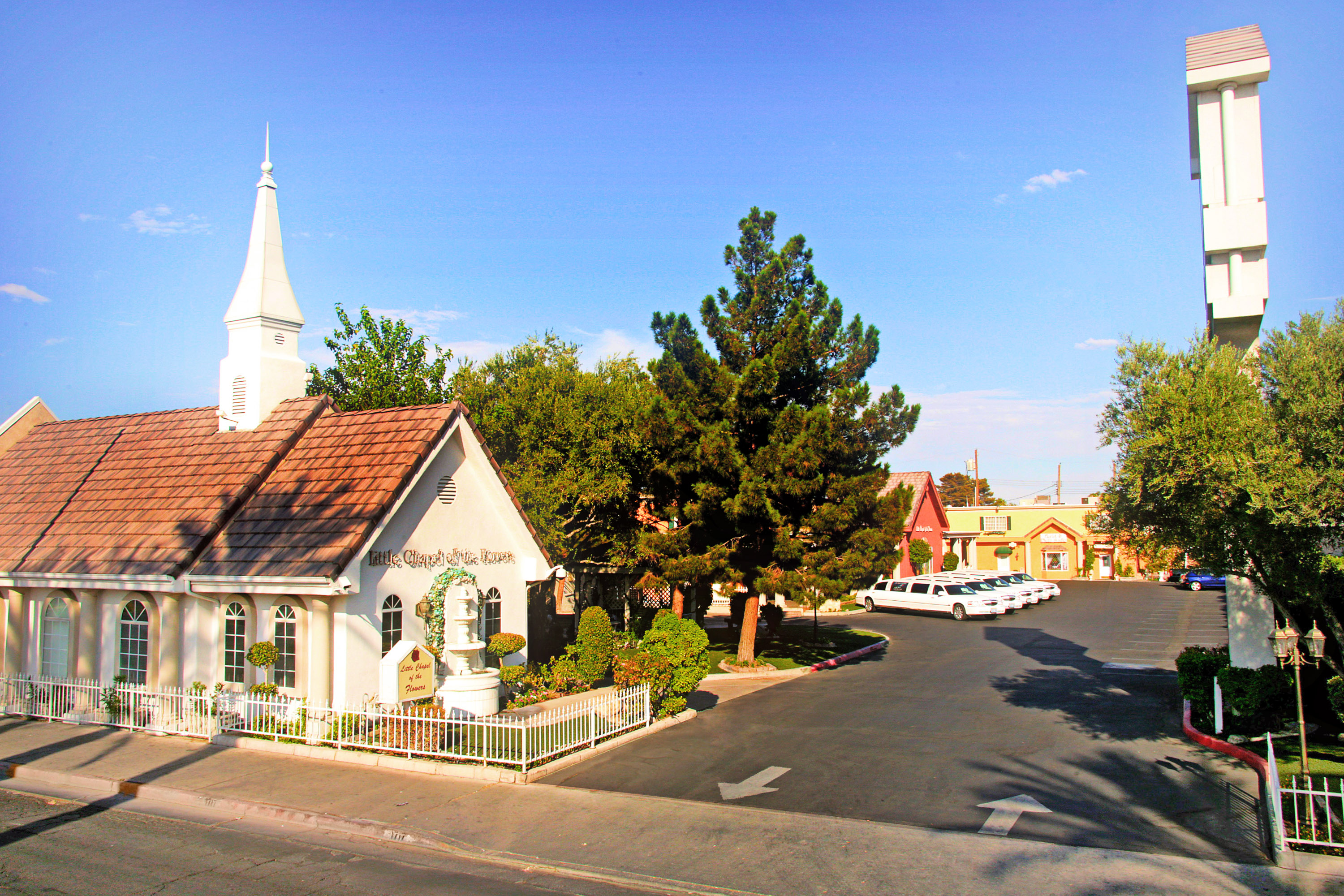 A retouched version of Image:Chapel of the Flowers.jpg100px. "De-spherized", adjusted levels, plus other minor changes. Original summary below: Photo of Chapel of the Flowers from the street. A retouched version of 100px. "De-spherized", adjusted levels, plus other minor changes. Original summary below: Summary Photo of Chapel of the Flowers from the street.